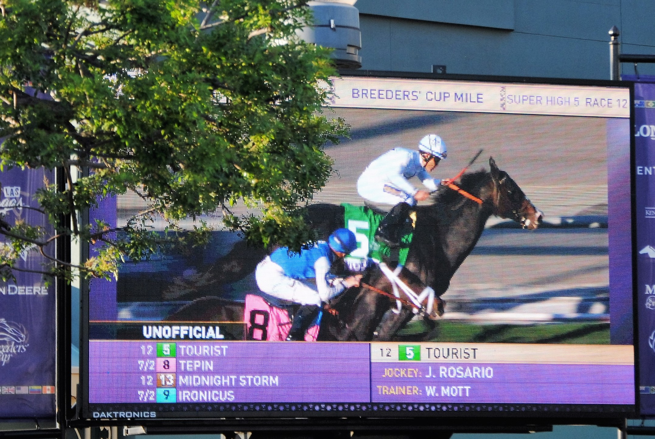 Tepin just misses catching Tourist at the wire in the 2016 BC Mile